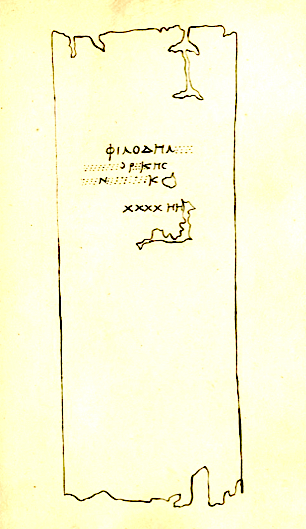 A papyrus from Herculaneum with the final subscription of Philodemus' 'On Rhetoric.' The first lines says 'of Philodemus,' the second says 'On Retoric,' and the last says '4200 [lines]'. Dots mark illegilbe letters. Oxford transcription, 1824.